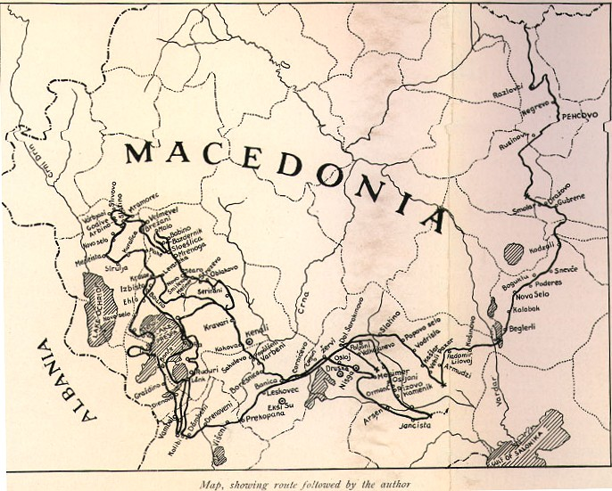 Map showing the tour in Macedonia of Albert Sonnichen